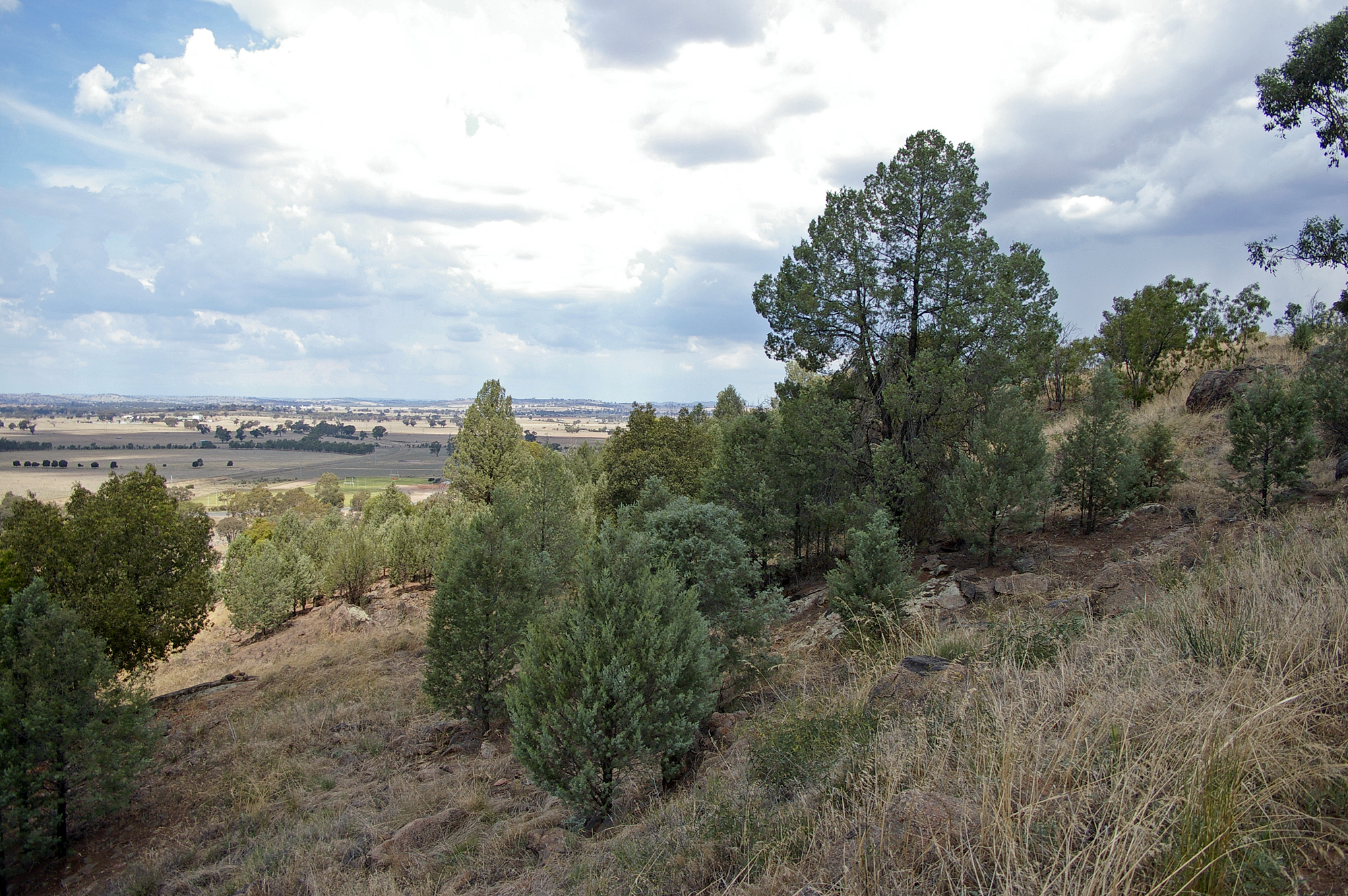 Callitris glaucophylla|Callitris glaucophylla on the eastern slope of Rocky Hill.